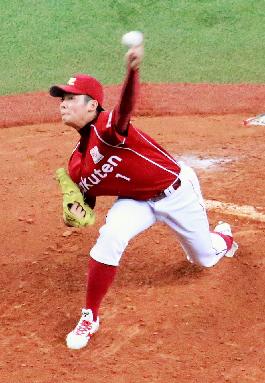 Yuki Matsui, pitcher of the Tohoku Rakuten Golden Eagles, at Osaka Dome.